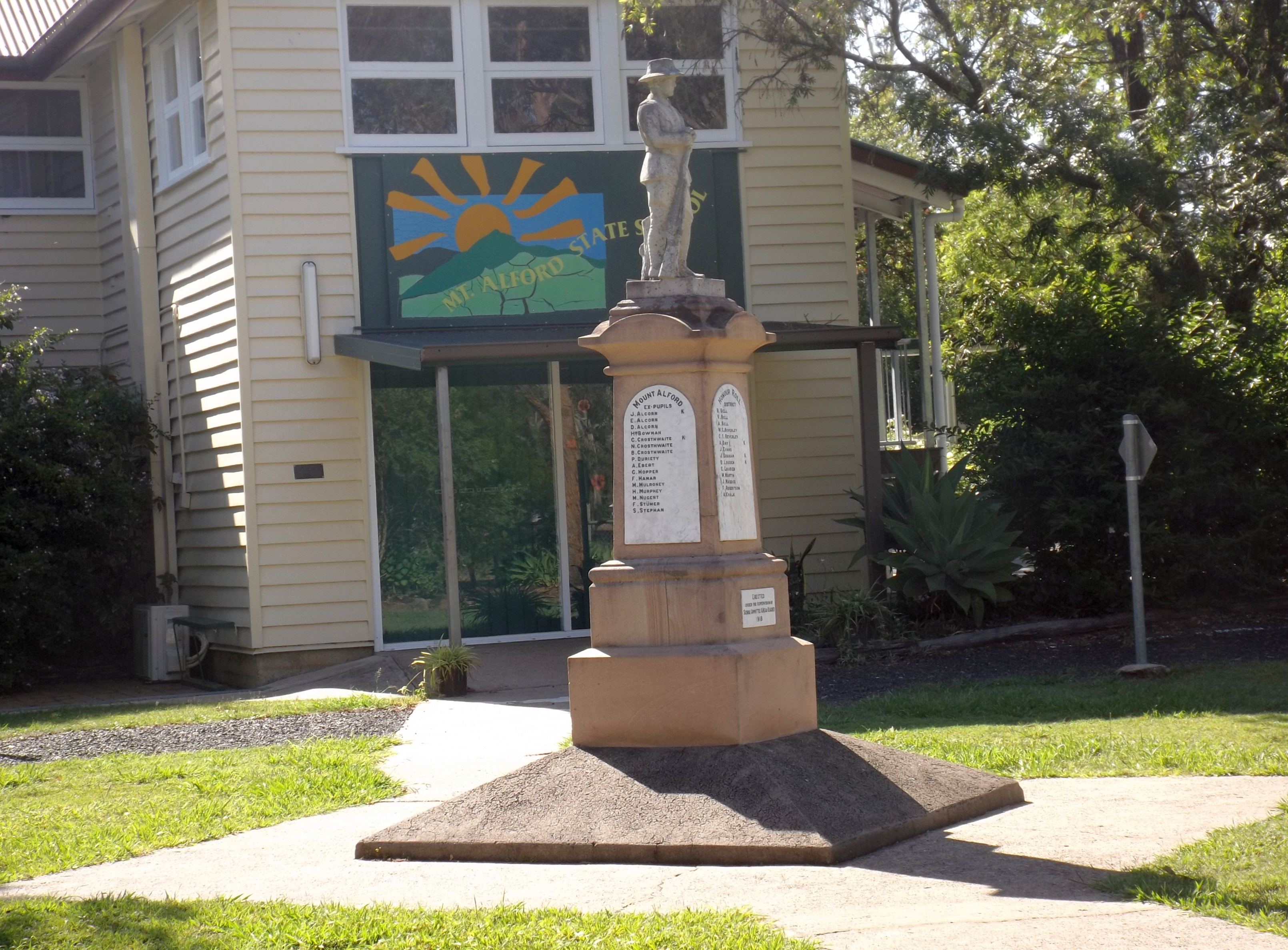 Photo of the war memorial at Mount Alford State School at Mount Alford, Queensland, Australia.